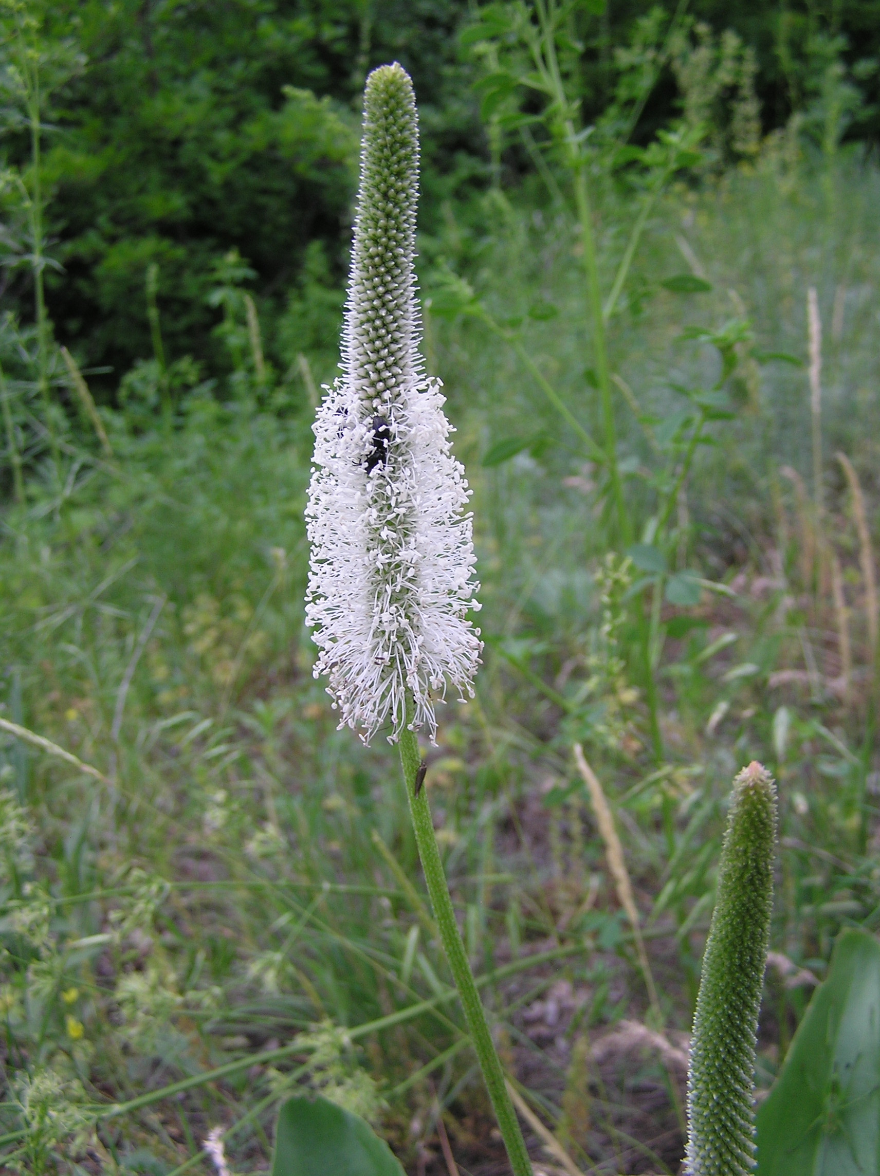 Plantago maxima (Jussieu ex Jacquin). Habitat: opening in bottomland deciduous forest near Volgograd Reservoir (Volga). Engelssky District, Saratov Oblast, Russia.